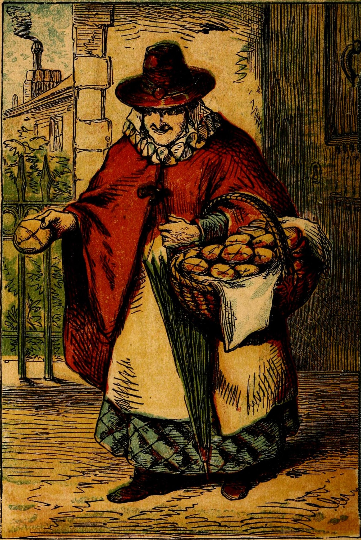 pg 16 of Nursery rhymes.